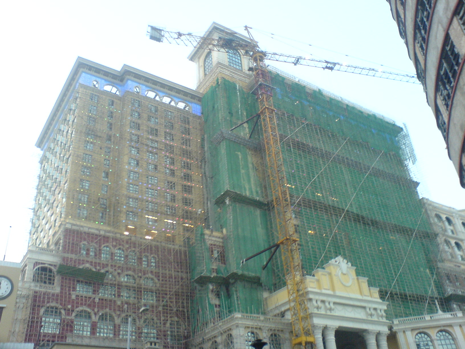 Porte_16_unfinished_(Macau SAR)